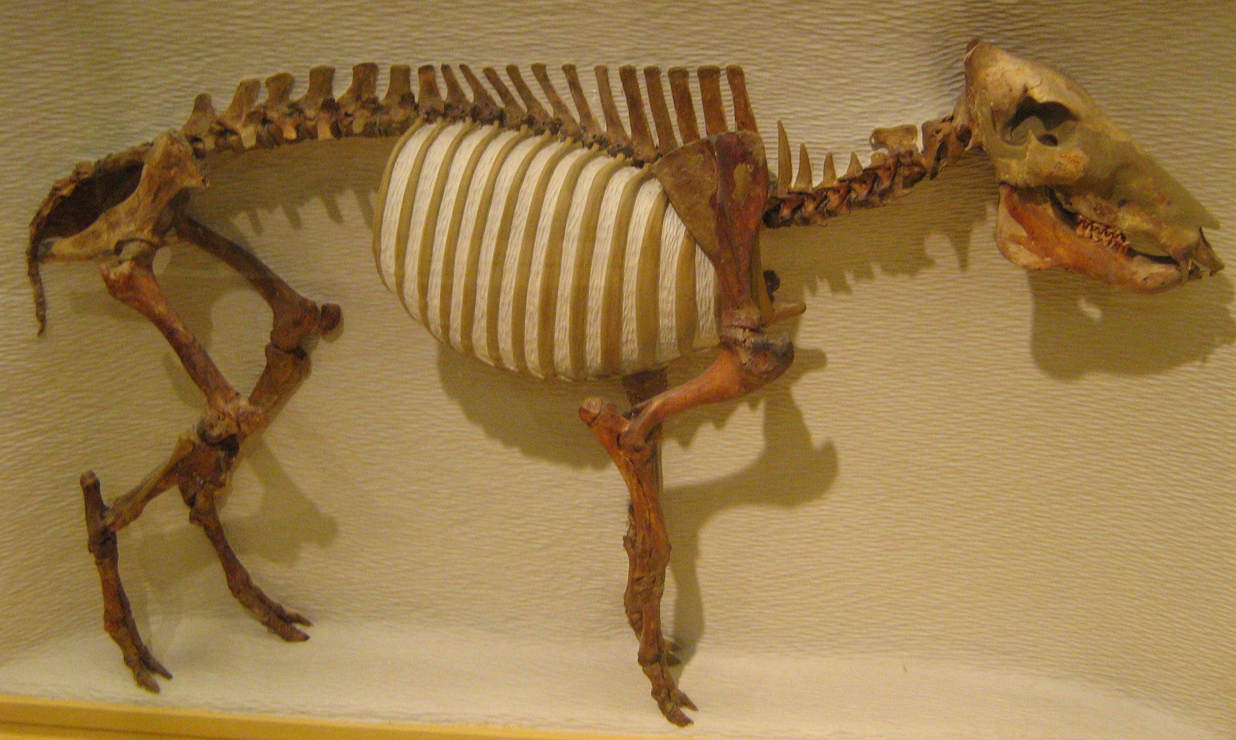 Picture of a reconstructed fossil of Platygonus compressus (syn. Platygonus leptorhinus) at the Harvard Museum of Natural History.